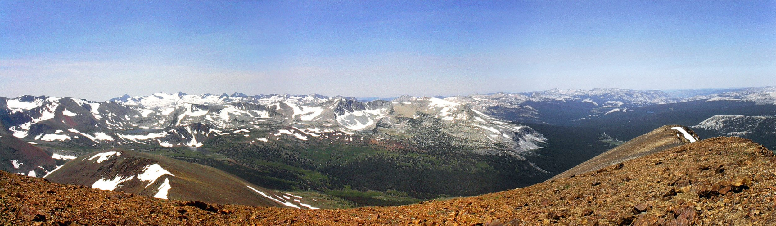 Panorama of Mount Gibbs, Yosemite National Park, California